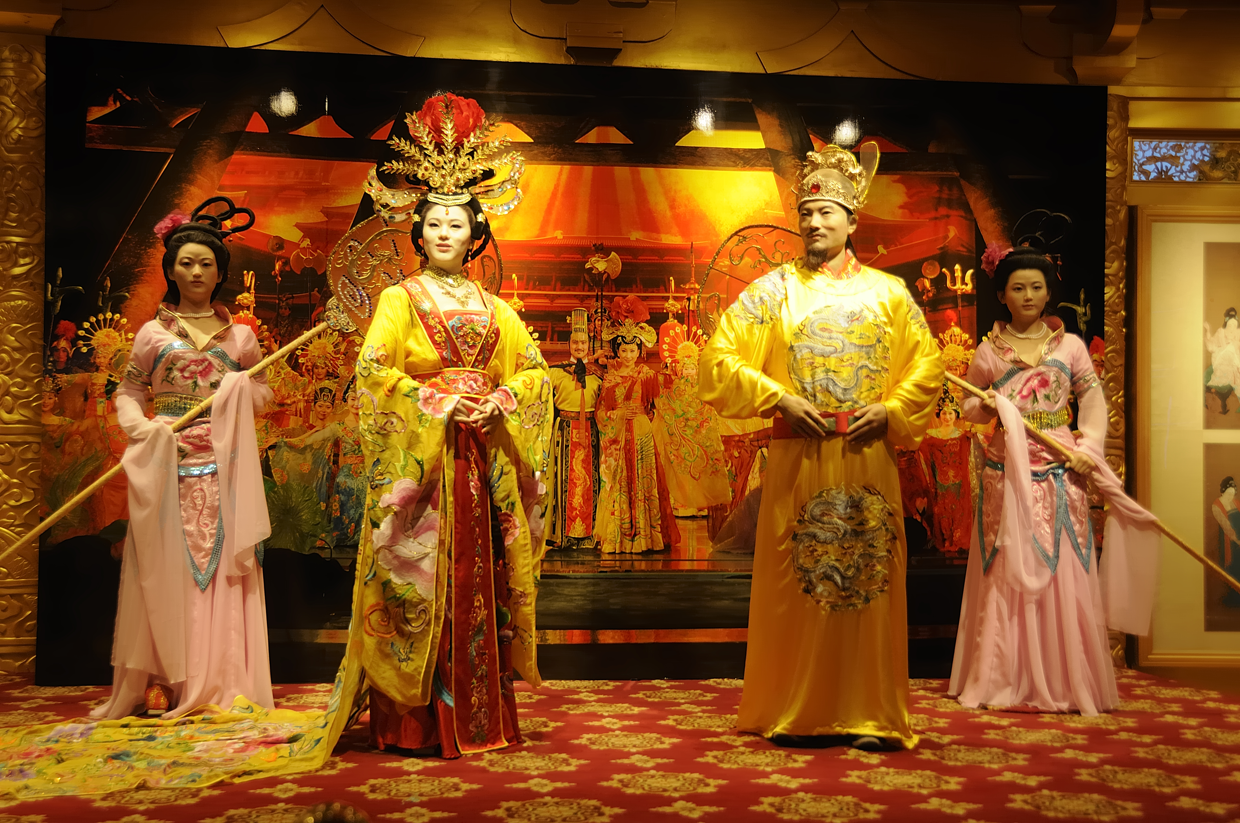 Traditional outfit of King and Queen of Hua people according to Shaanxi people. Photo taken at Shaanxi Pavillion, Shanghai Expo 2010